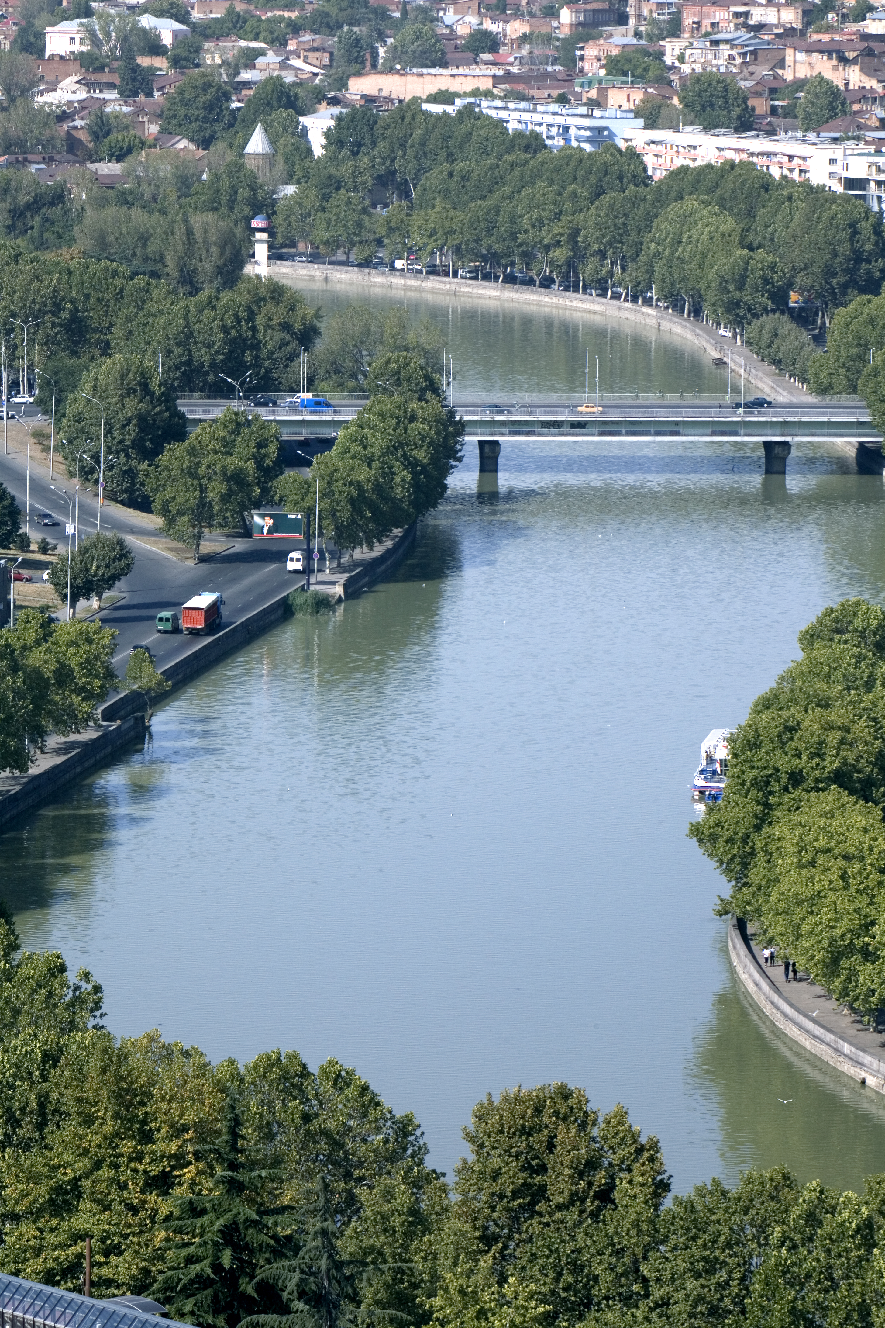 River Mtkvari (Kura) flowing through Tbilissi, Georgia